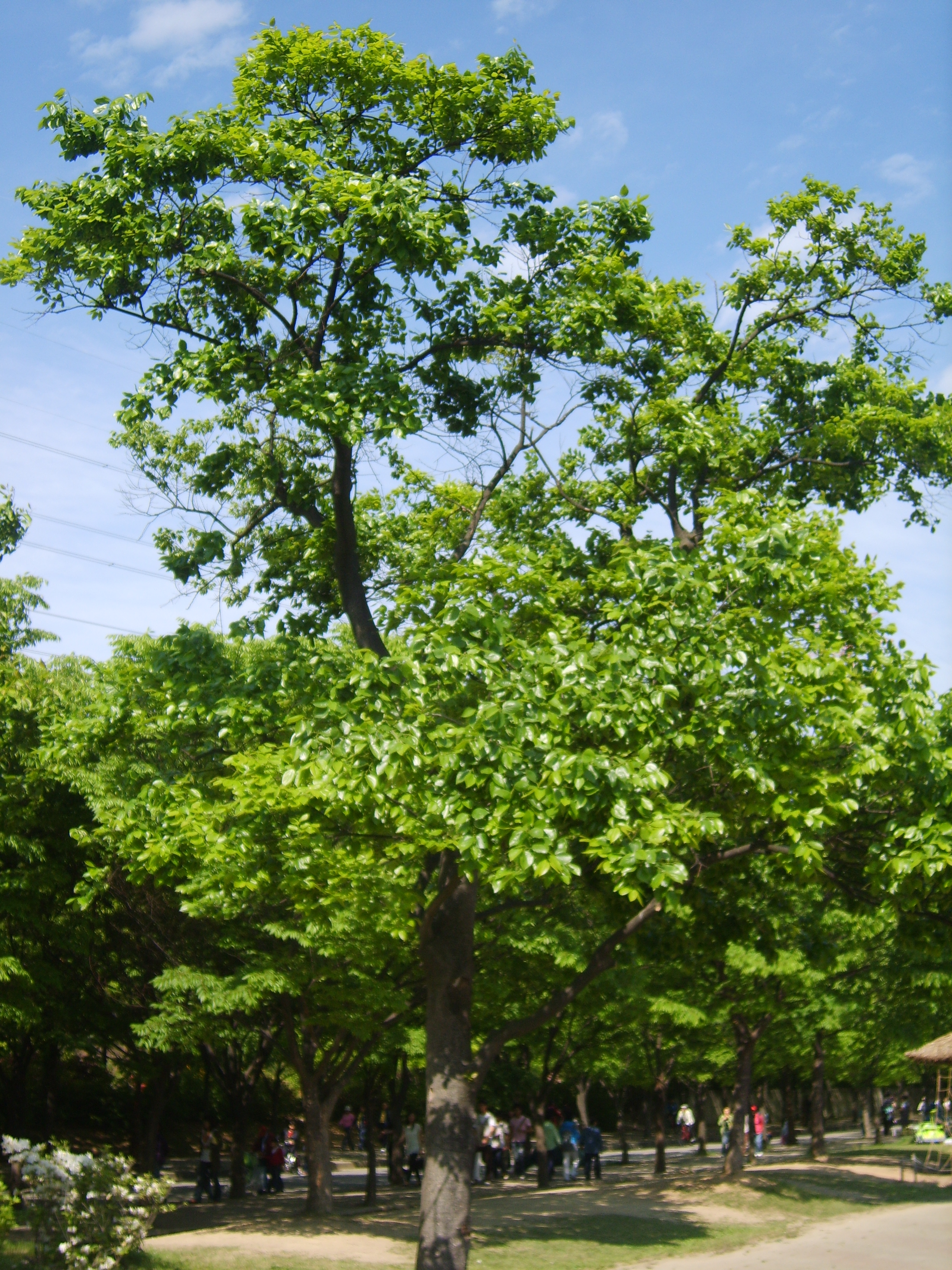 in Incheon Korea. 인천대공원에서 사는 팽나무